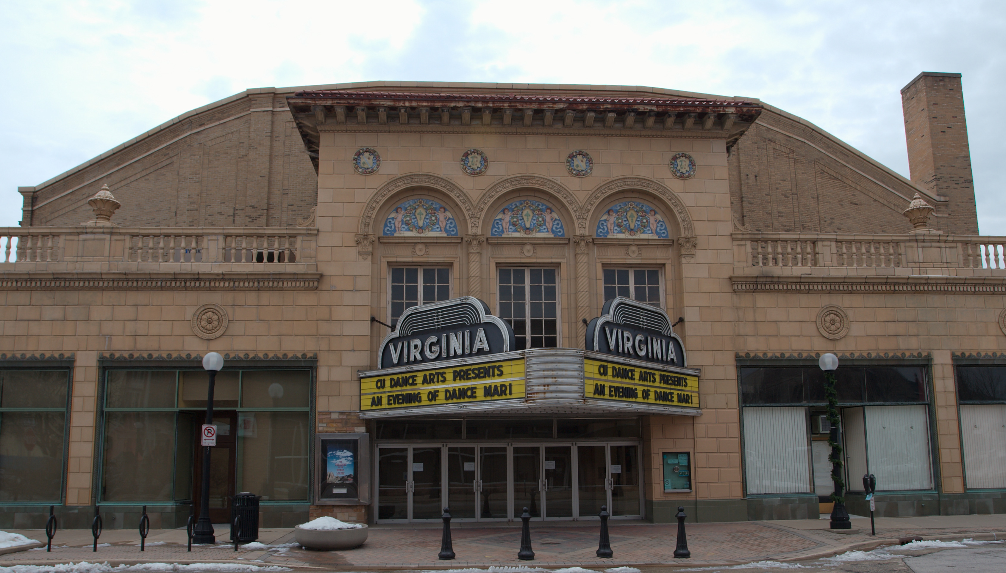 Virginia Theater (added 2003 - Building - #03001201) 203 W. Park Ave., Champaign, IL Historic Significance: Architecture/Engineering, Event Architect, builder, or engineer: Crane, C. Howard and Franzheim, K., Ramey, George Architectural Style: Renaissance Area of Significance: Entertainment/Recreation, Architecture Period of Significance: 1900-1924, 1925-1949, 1950-1974 Owner: Local Gov't Historic Function: Commerce/Trade, Recreation And Culture Historic Sub-function: Business, Specialty Store, Theater Current Function: Recreation And Culture Current Sub-function: Theater